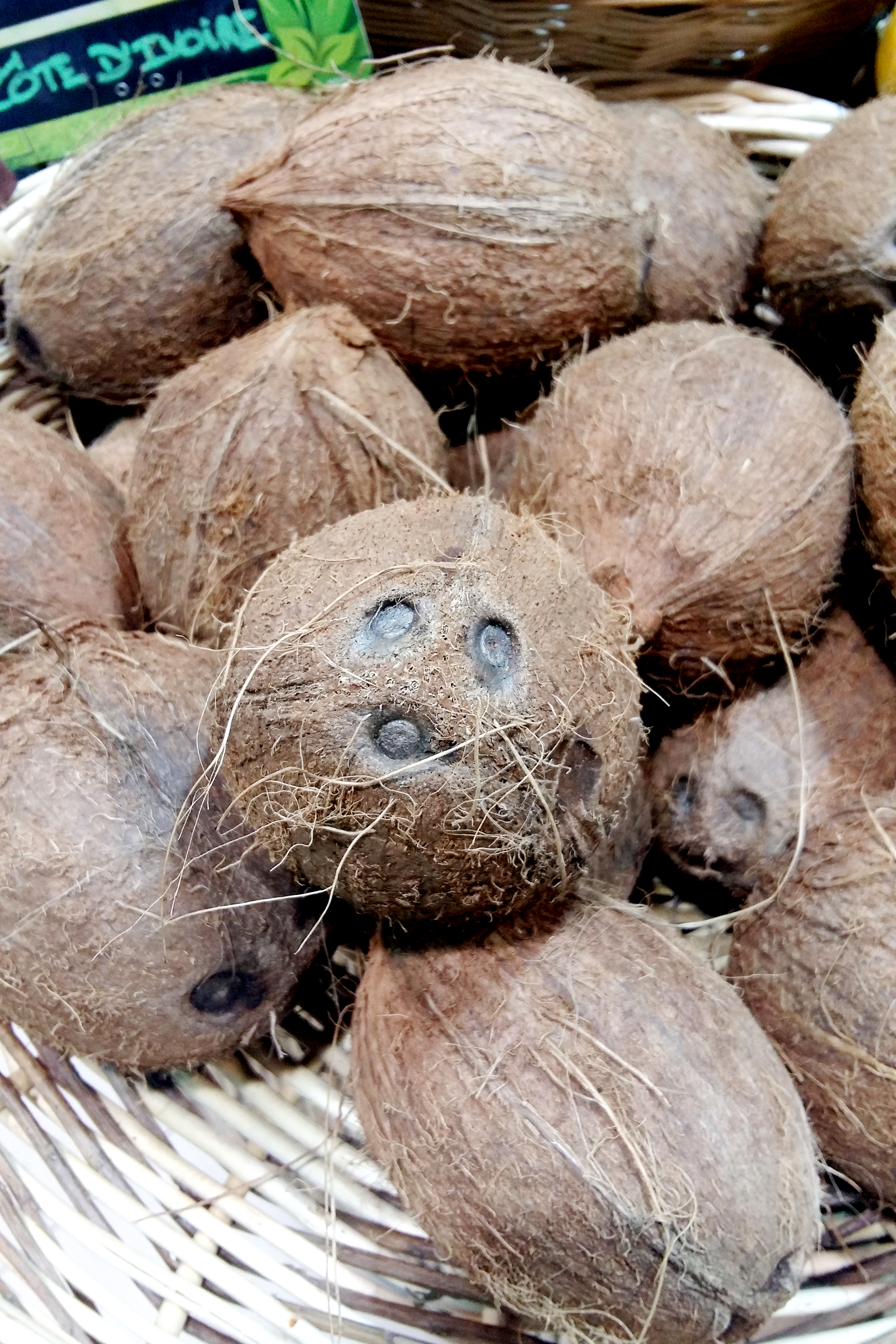 Organic-grown coconut produced in Côte d'Ivoire, in a grocery shop of the 11th arrondissement of Paris, France.